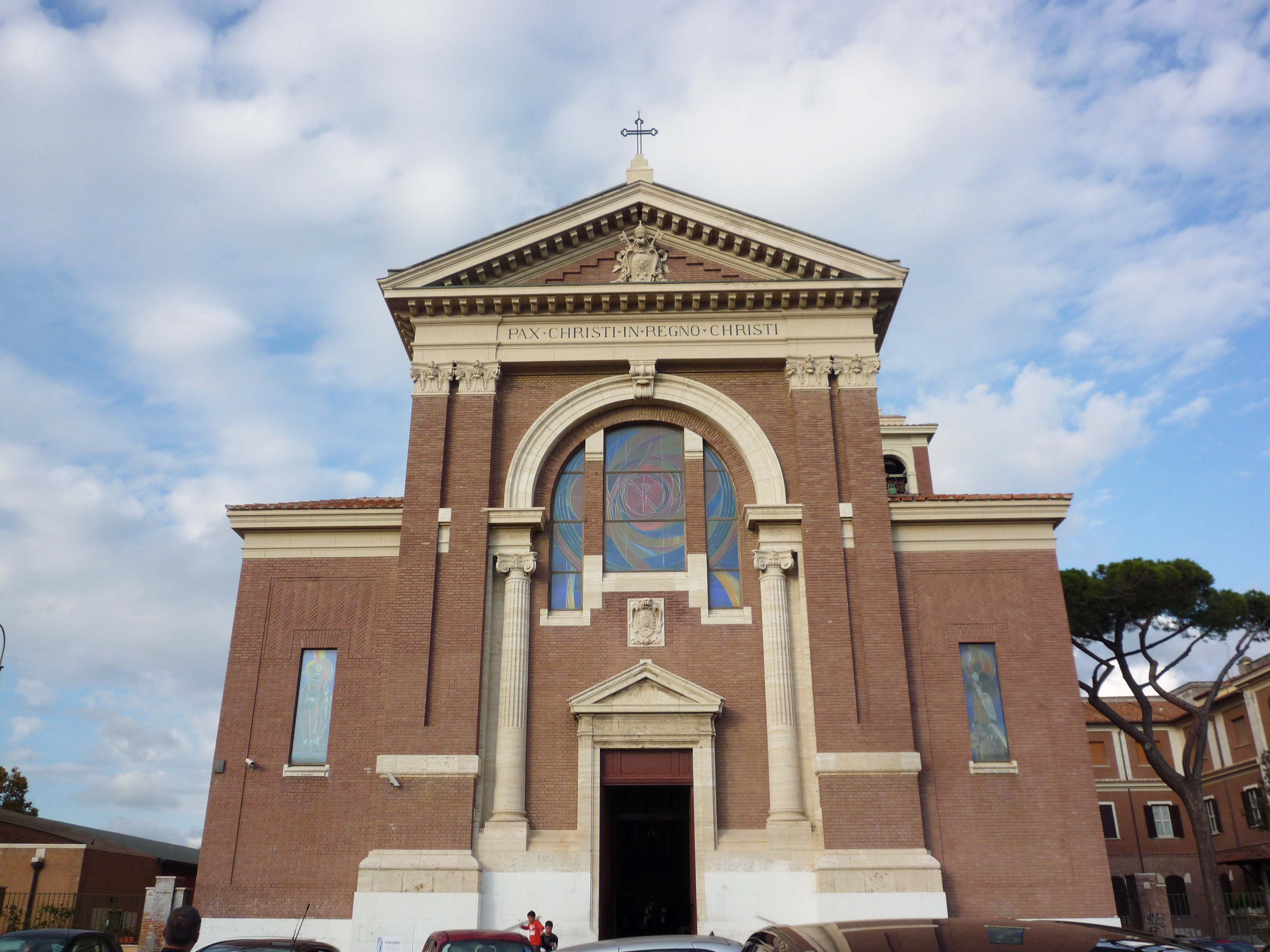 The facade of the church of Holy Mary Queen of Peace (Santa Maria Regina Pacis), Ostia, Italy